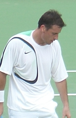 Andrei Pavel at the 2006 Australian Open.